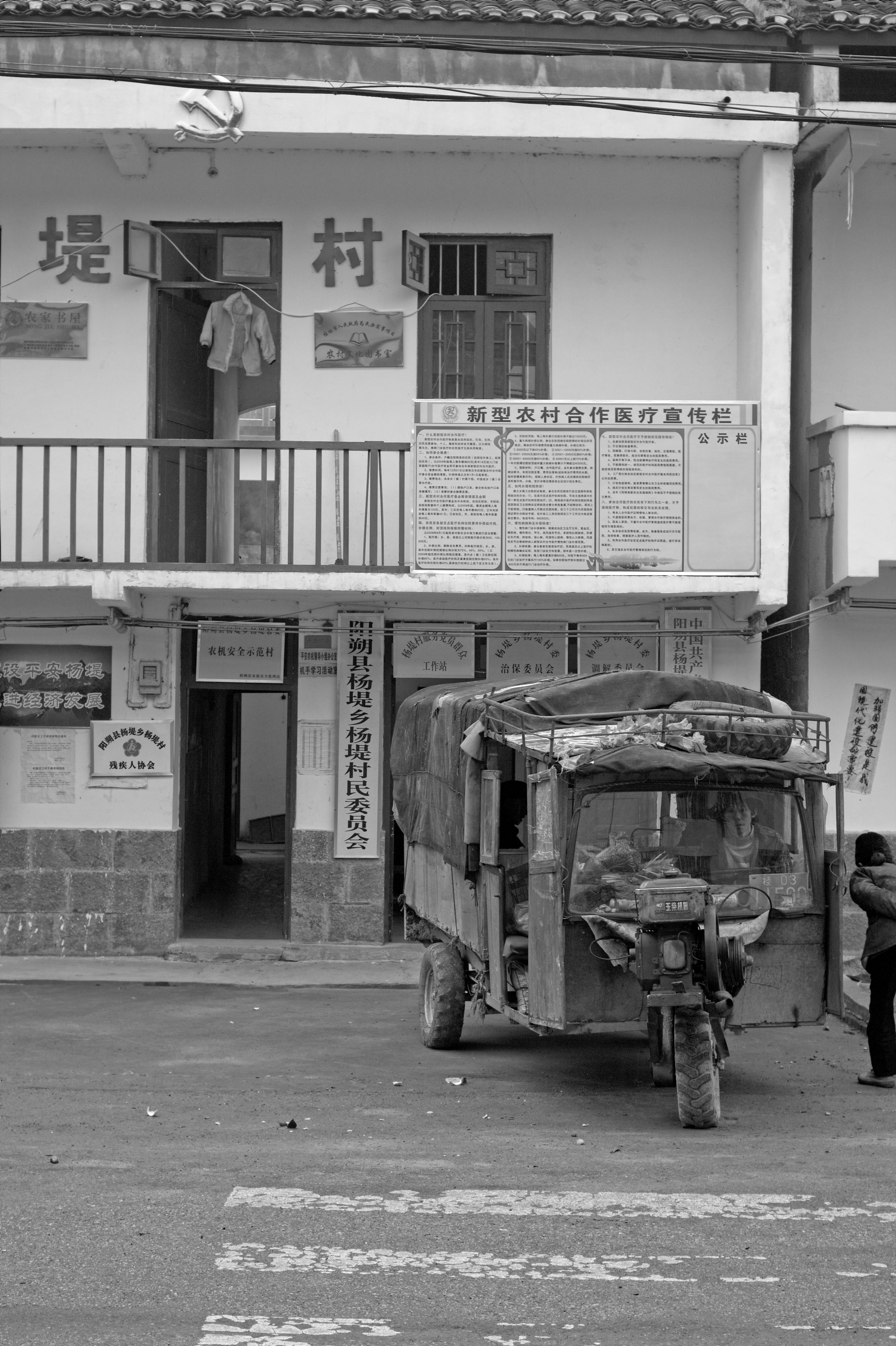 Village head in a little village of China near Yangshuo, south of China. On the right, this a local truck used by country side Chinese people in this area (a two-wheel tractor with trailer, obviously).